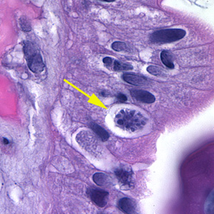 An oocyst of Cystoisospora belli in the epithelial cell of a mammalian host stained with hematoxylin and eosin. The oocyst is marked with yellow arrow.